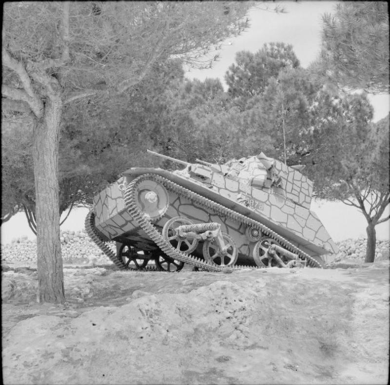 The British Army on Malta 1942 A Light Tank Mk VIC on exercise in the Maltese countryside, 24 March 1942